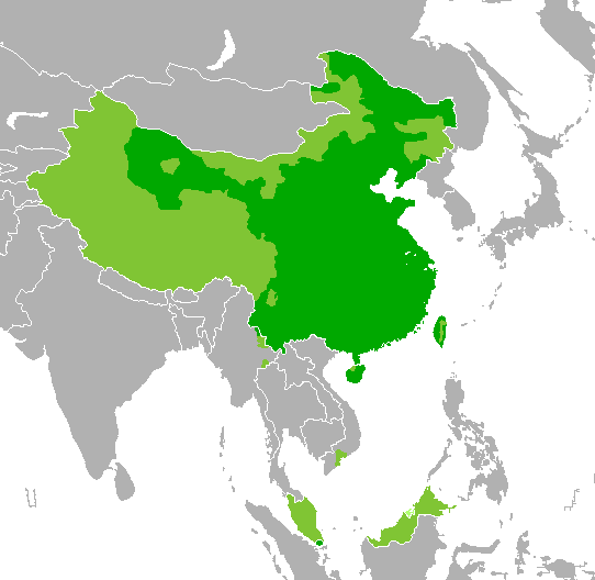 Map of Chinese Speaking World. Map made from Image:BlankMap-World.png Dark green: Chinese-speaking majority, official language (People's Republic of China, Republic of China (Taiwan), Singapore) Light green: large Chinese-speaking minorities (Ethnic Chinese population in Malaysia (25%) and Brunei (15%)) Kyrgyzstan is included for the Dungan language minority, Vietnam for the significant Hoa minority, and the Philippines for its Chinese-speaking ethnic Chinese population. Ethnic Chinese populations which do not speak Chinese as a first language are not included.